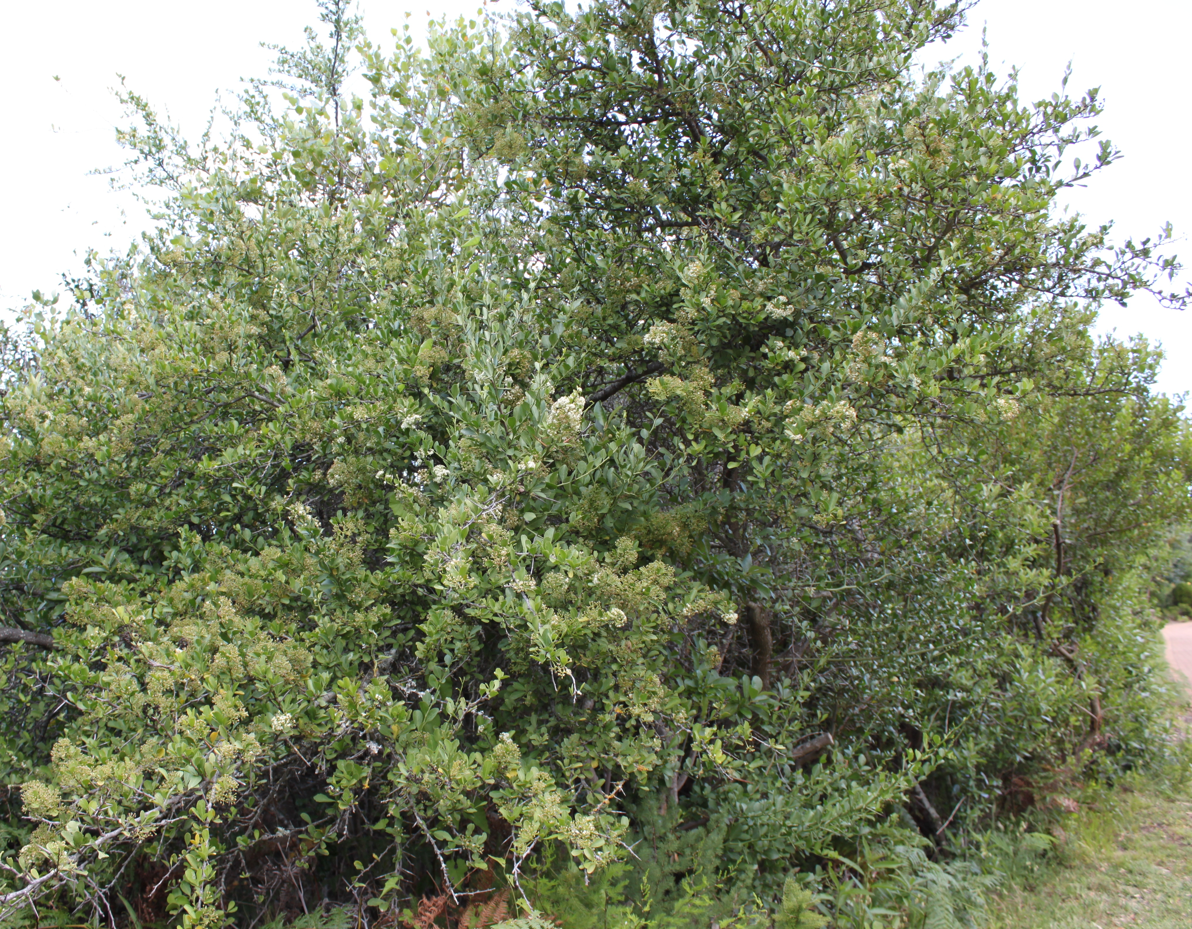 Common Spikethorn tree of Africa. Gymnosporia heterophylla. Photo taken in Cape Town.